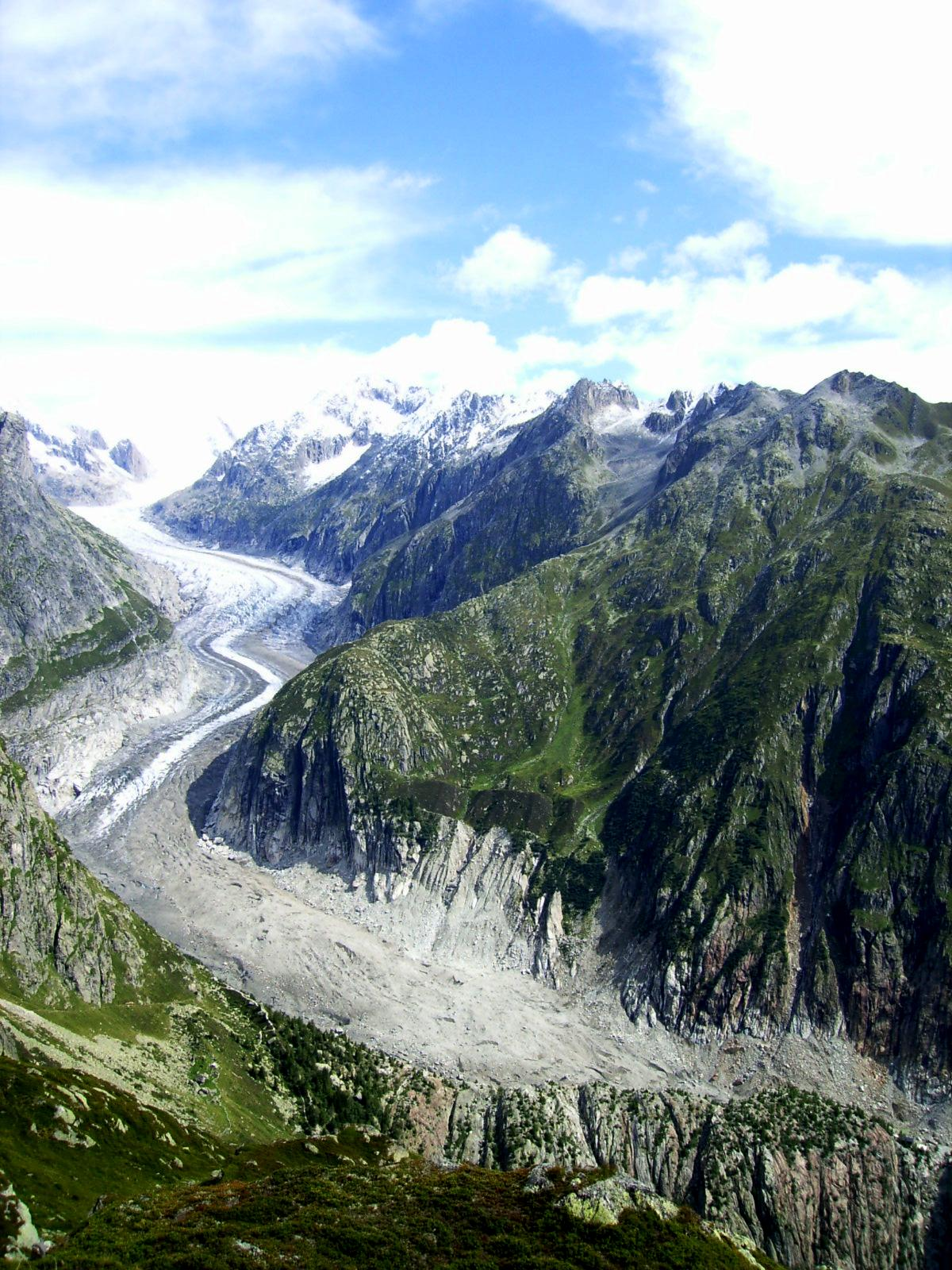 Fiescher valley and glacier